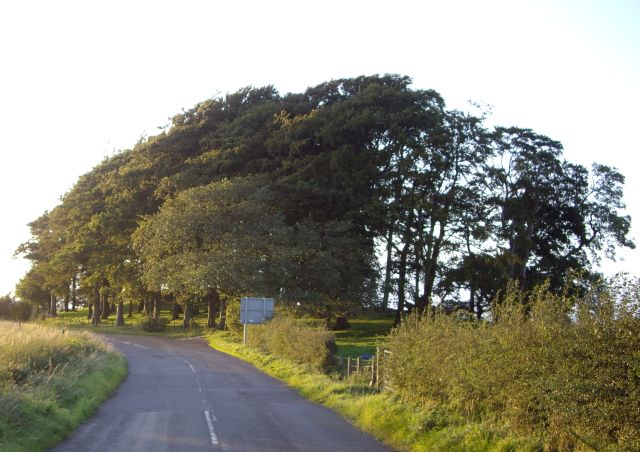 Deil's Wood A local legend says that the Knights Templar who are traditionally said to have held land in the area, buried treasure in the Deil's Wood (Castlehill Plantation) then spread tales of ghosts and ghouls inhabiting the spot to put off local people from digging-up the treasure. The plan appears not to have worked as the laird's son tried to dig-up the treasure. The Knights Templar were established at Jerusalem in the year 1118 and came to Scotland in the reign of King David I.